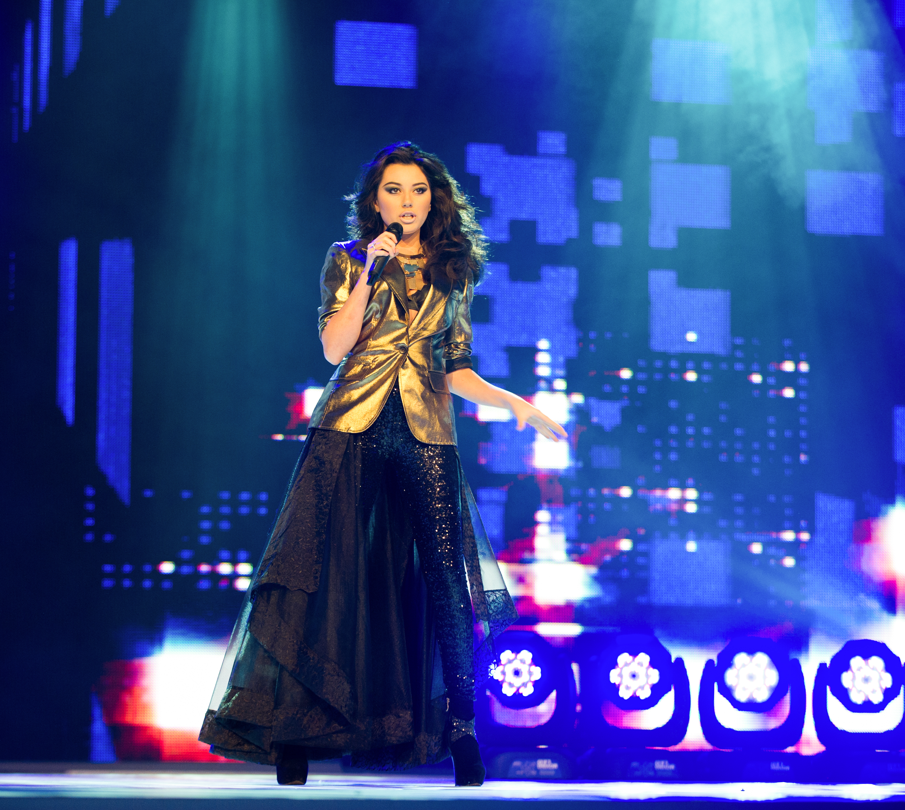 Safura Alizadeh